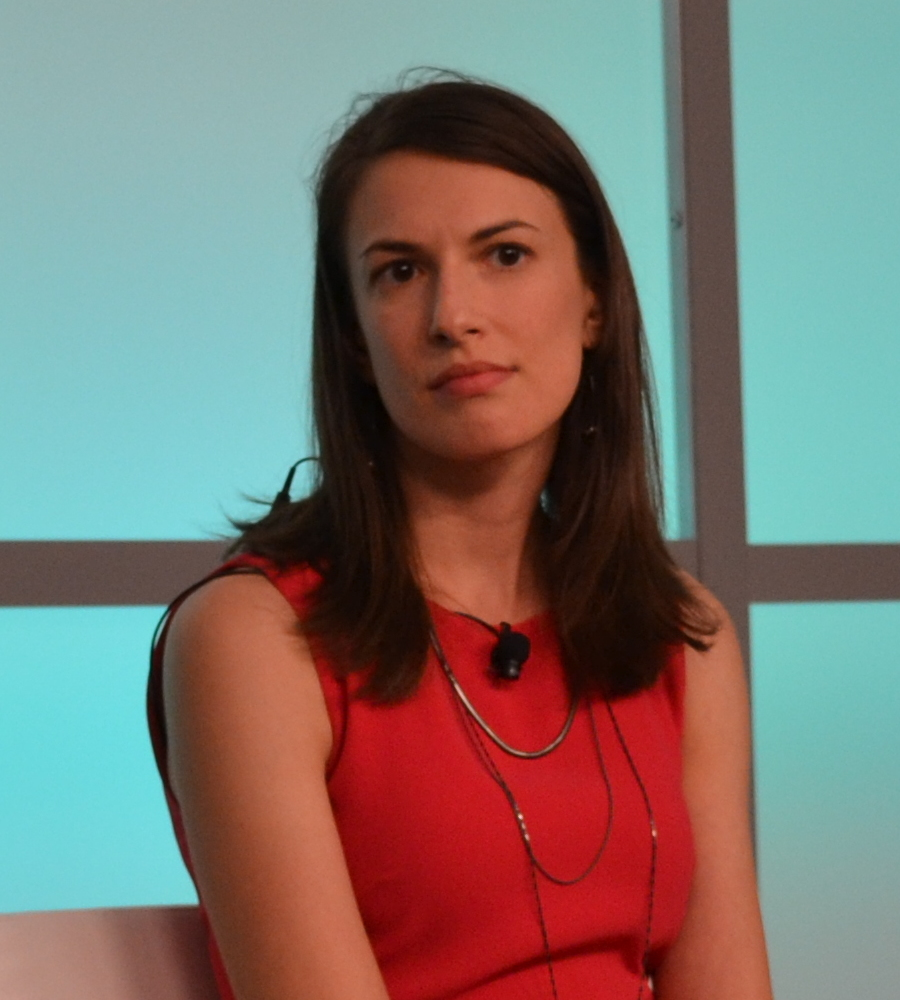 Kevin Carey, Dana Goldstein, and Jamelle Bouie